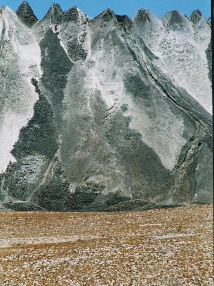 Phosphate artificial mountain Zin Reserve